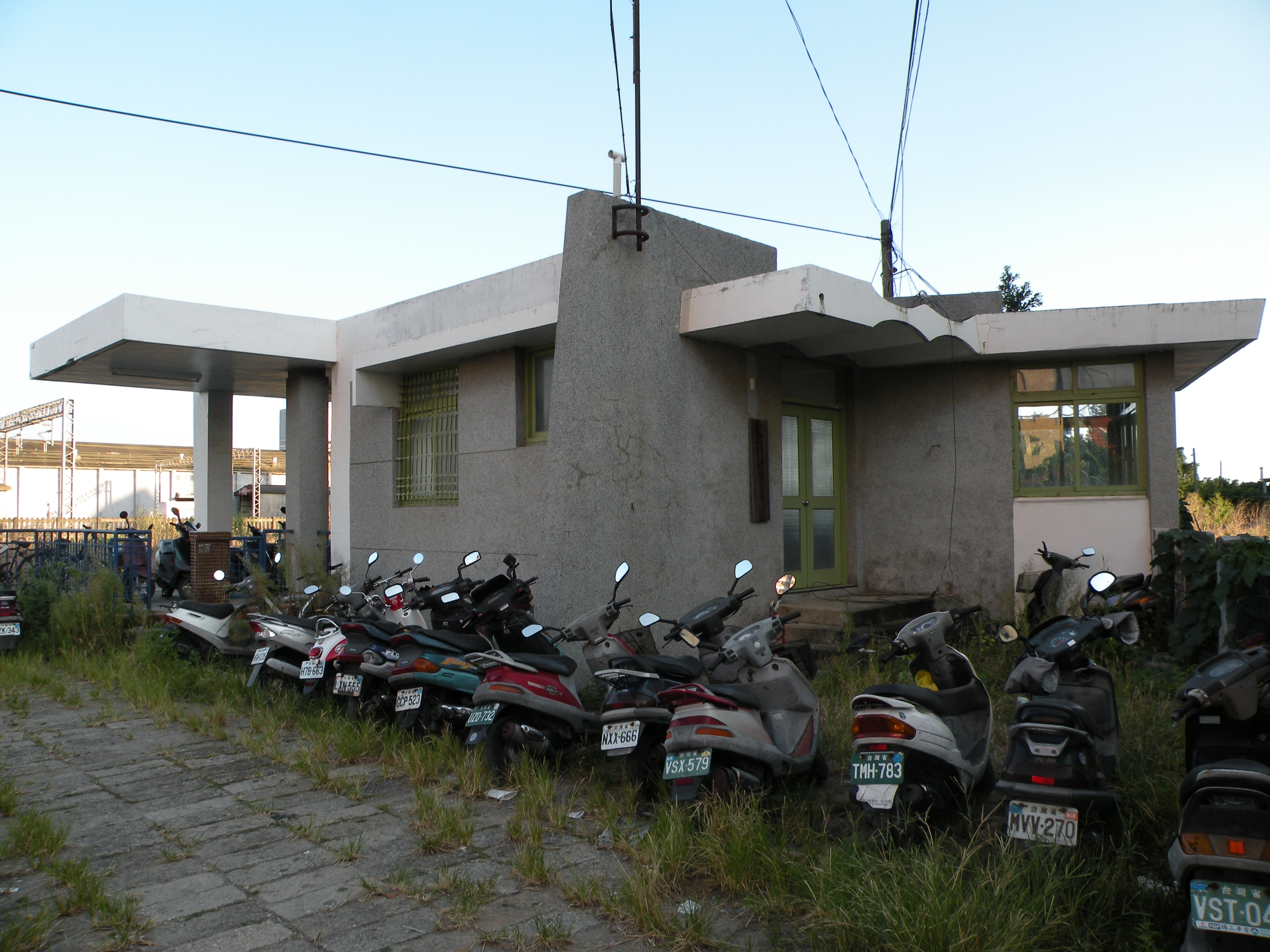 Taisugar Sinying Station, Sinying, Tainan, Taiwan